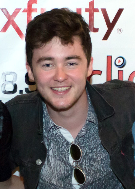 Rixton after performing at the Click 98.9 New Artist Showcase at the Seattle Hard Rock Cafe.